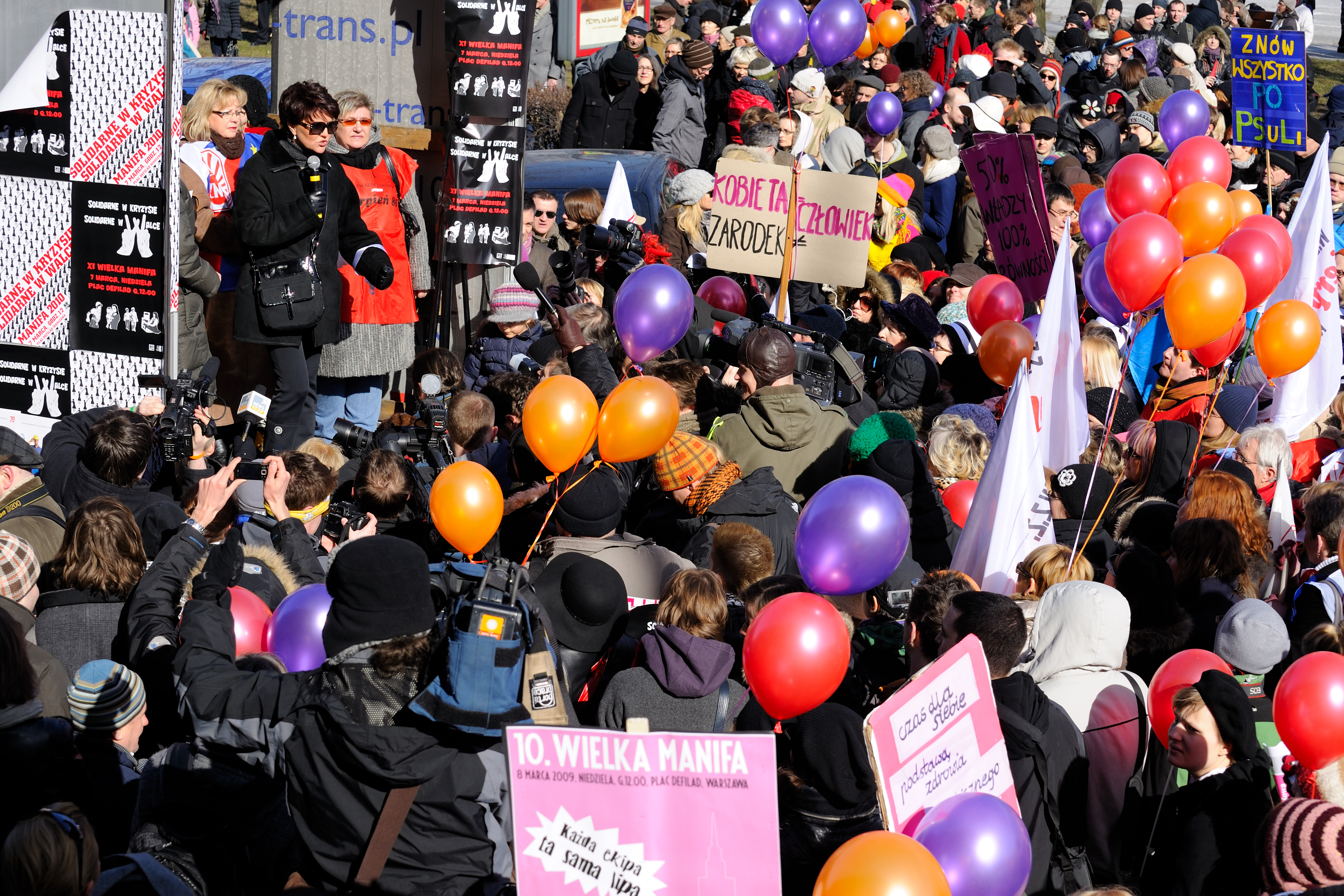 International Women's Day protest in Warsaw, March 2010. Guest speakers Jolanta Kwaśniewska and Liczni Wielbiciele are shown onstage.